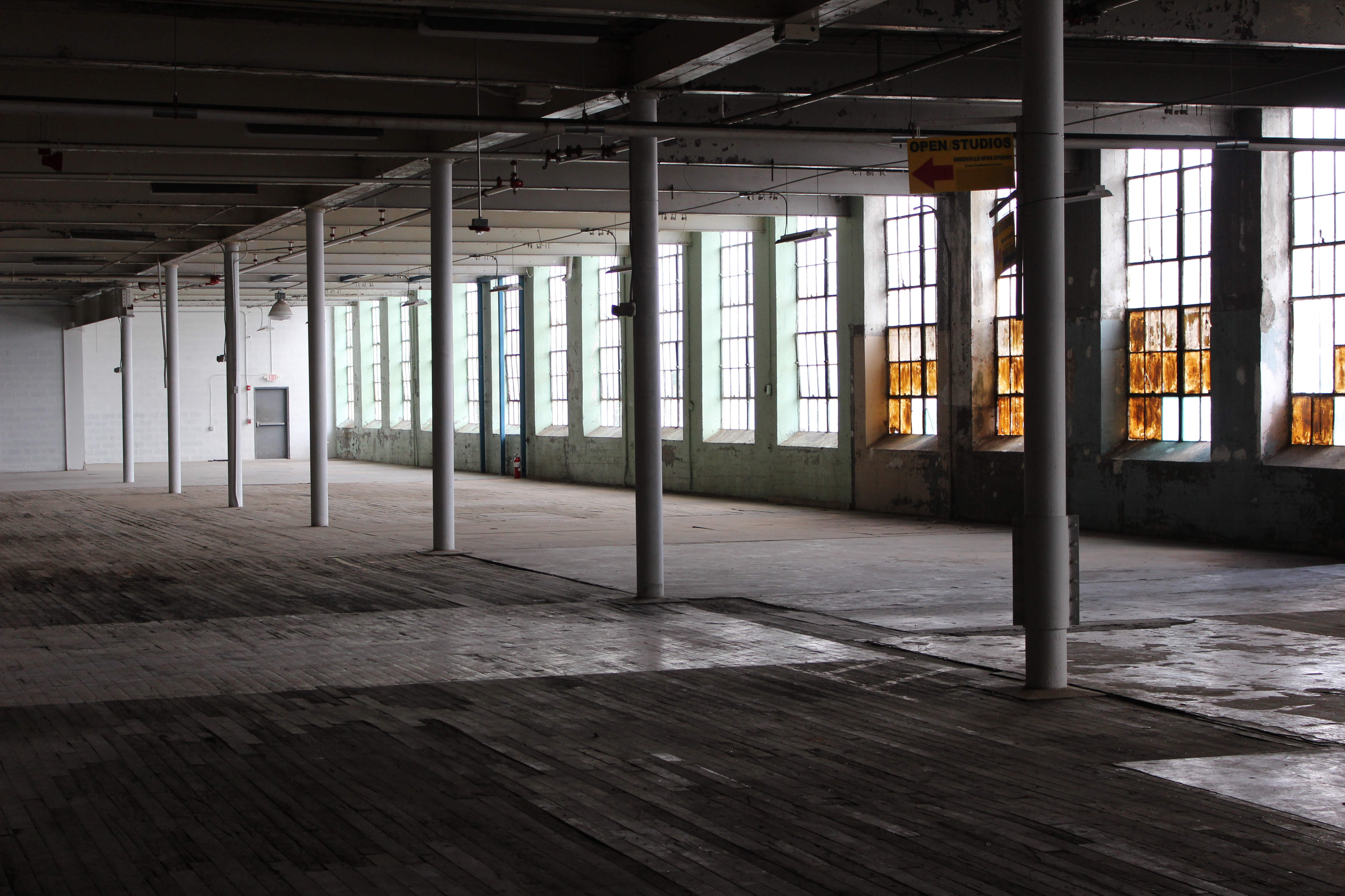 Unused interior space, Taylors Mill, Taylors, South Carolina, USA